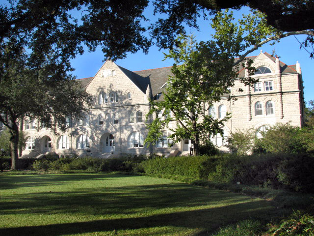 Gibson Hall at Tulane University